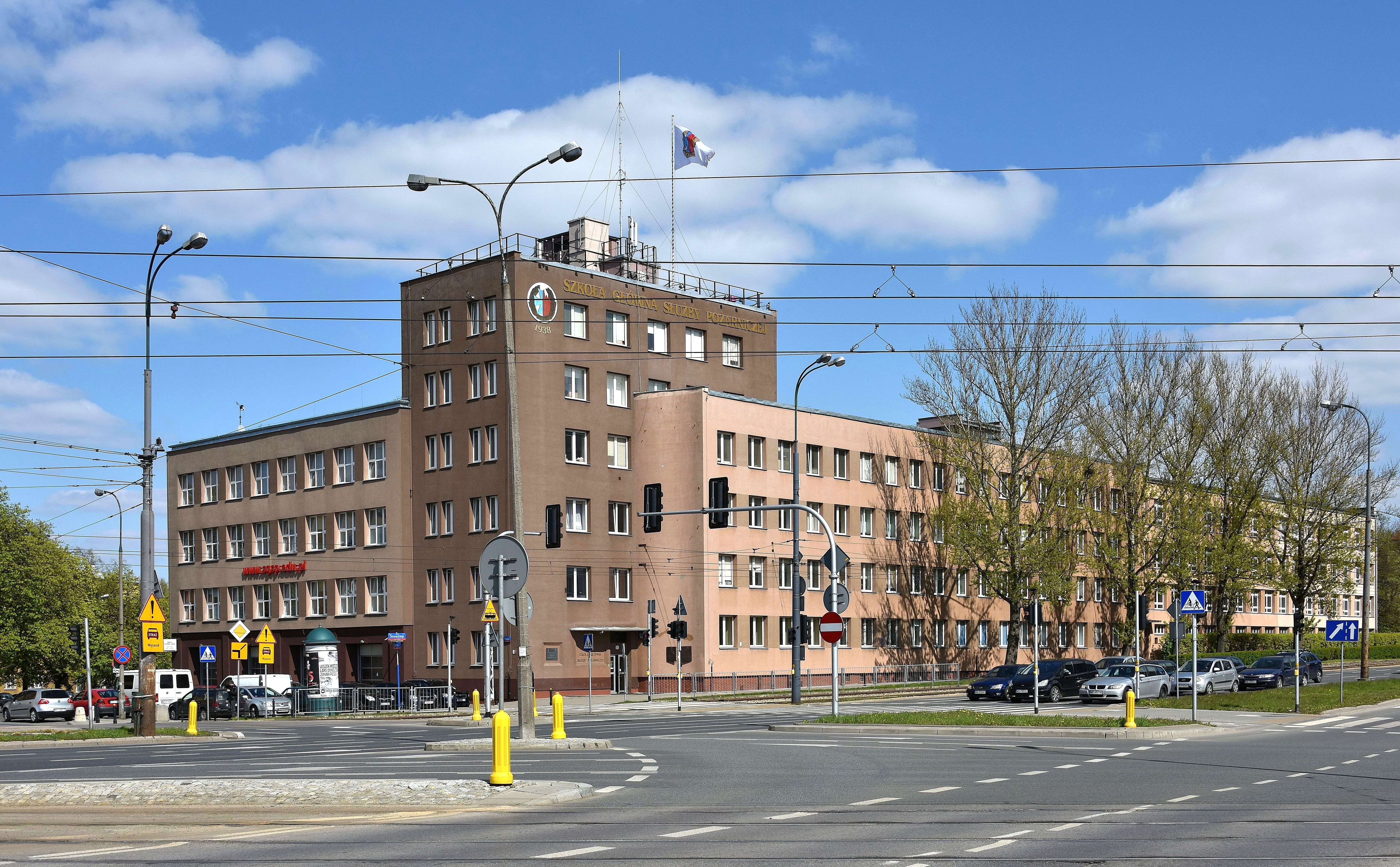 The Main School of Fire Service in Warsaw